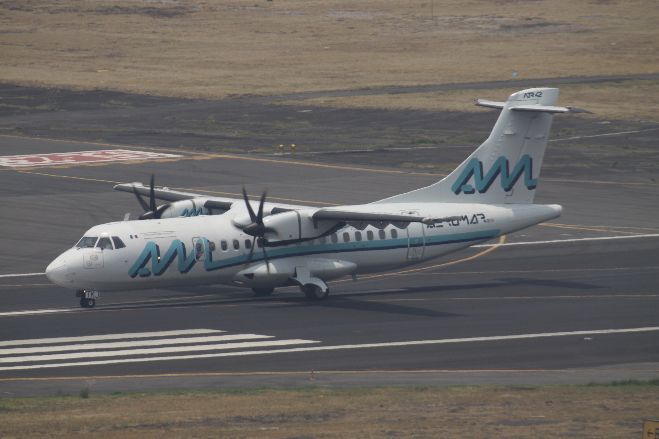 At Mexico City International Airport